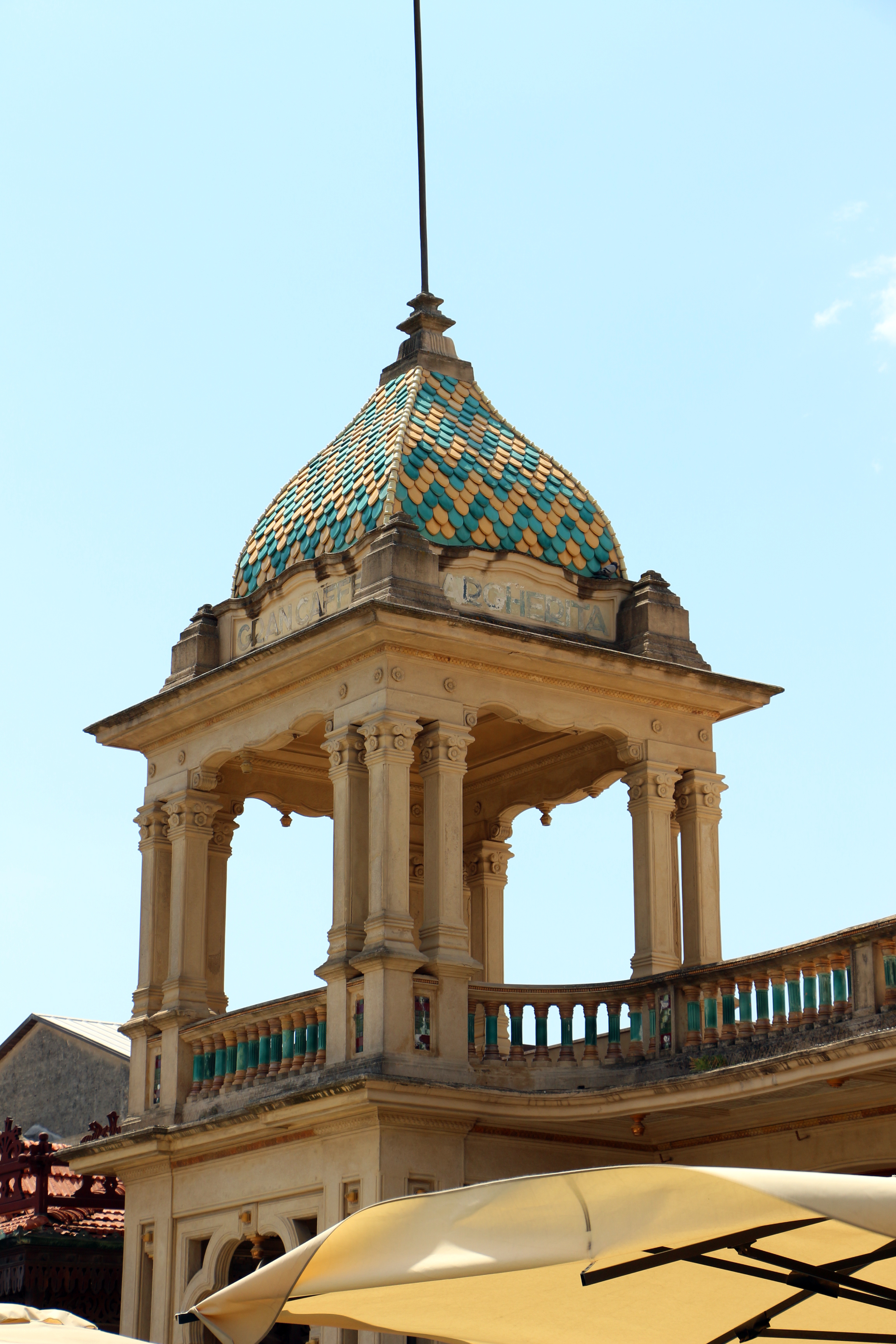 Viareggio